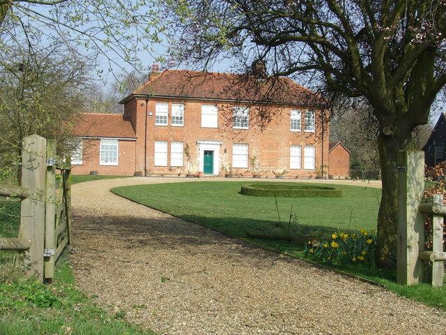 Burstall Hall Most of Burstall Hall and it's farm fall into the next square north but on the 1:25:000 O.S. map this part is in this square near to Burstall, Suffolk.